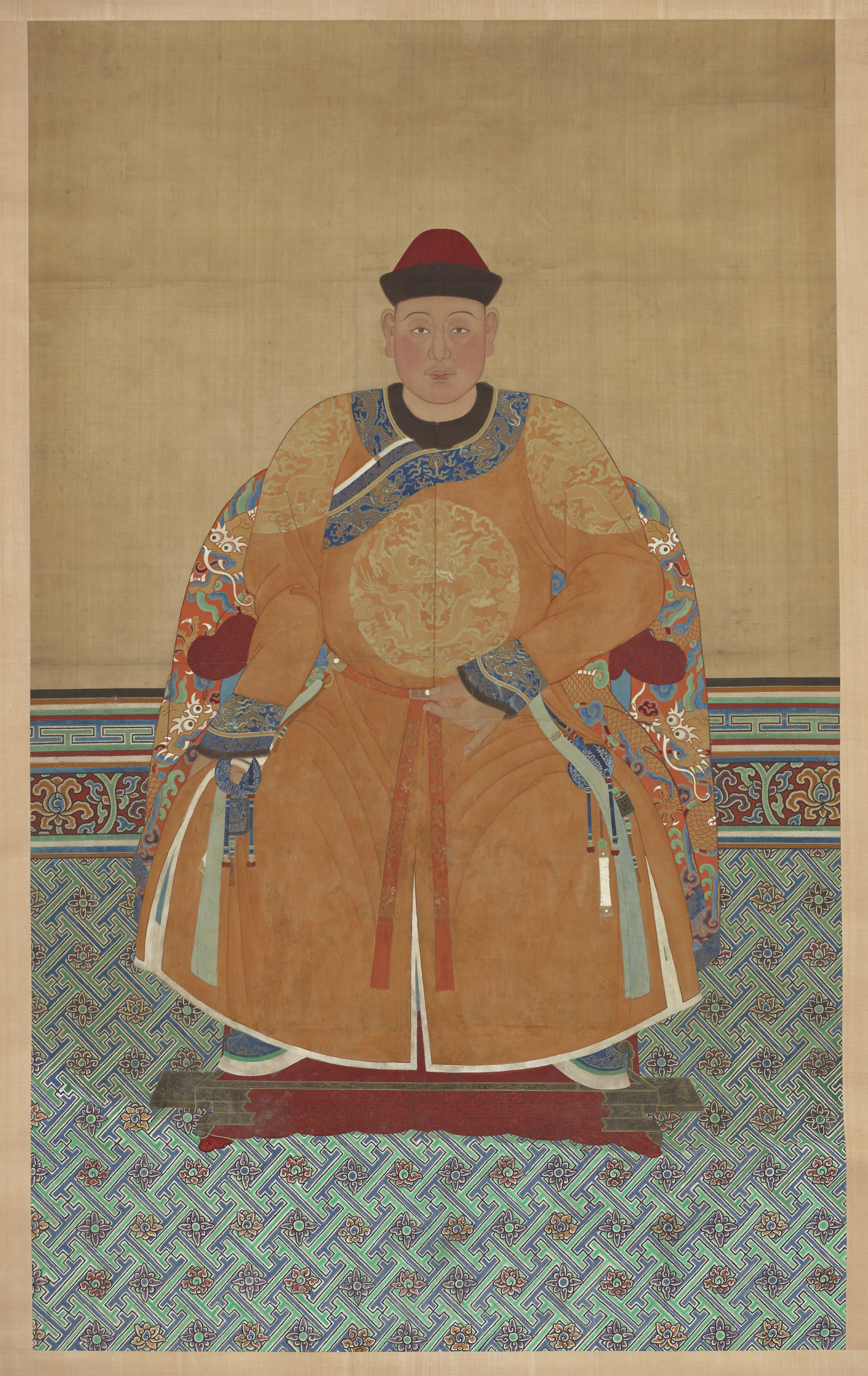 Portrait of Daishan (young)